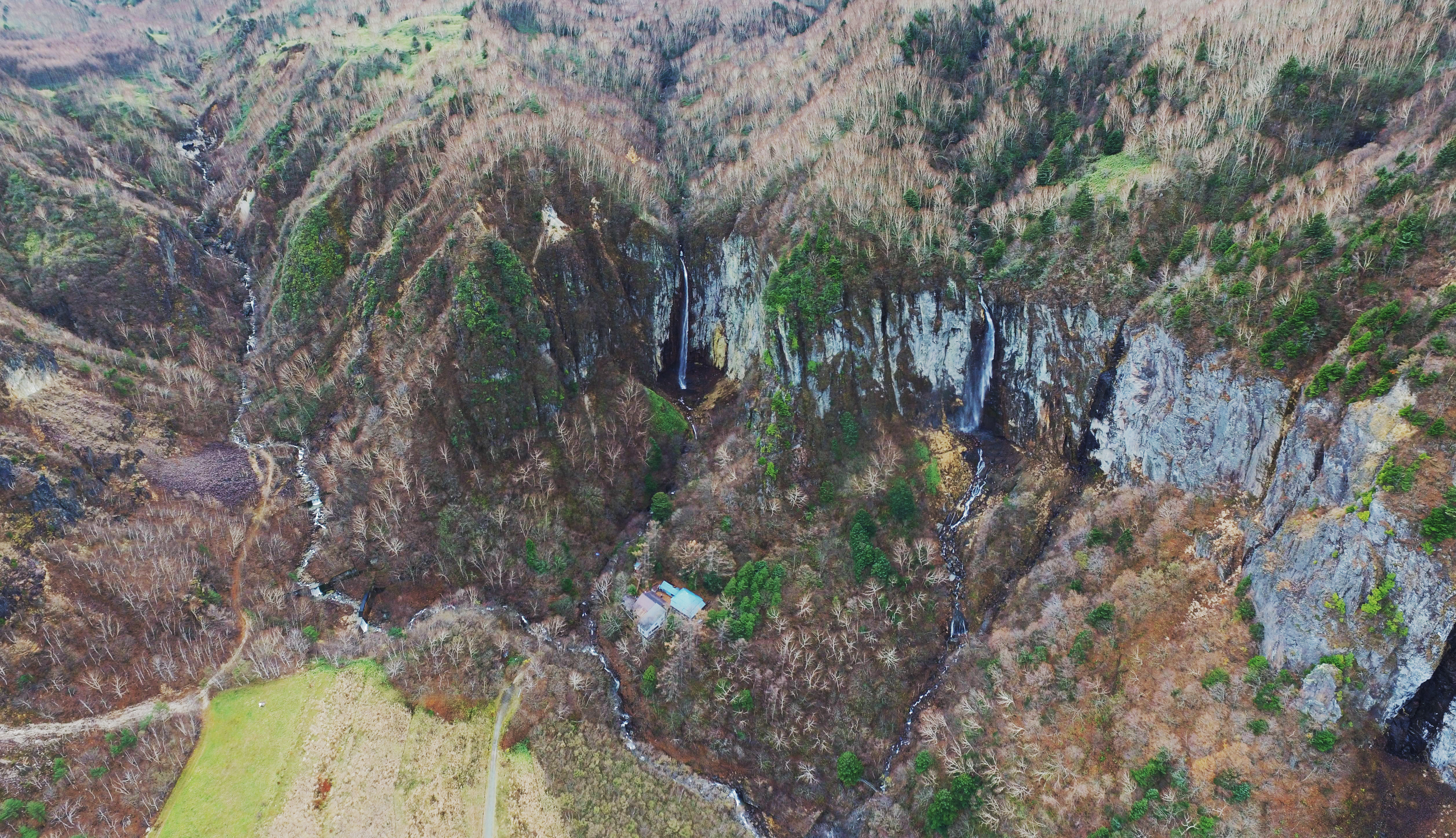 Yonako Falls, Suzaka, Nagano Prefecture, Japan.